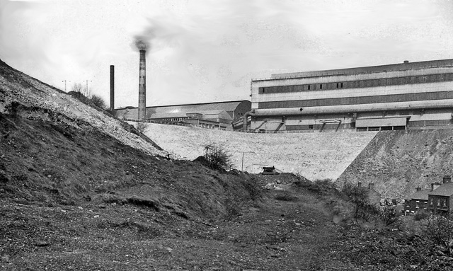 Site (probable) of Brymbo (GC) Station by Brymbo Steelworks, near to Moss, Wrexham/Wrecsam, Great Britain. View NW, towards buffer-stops; terminus of ex-Great Central (Wrexham, Mold & Connah's Quay section) branch from Wrexham. This station last saw passengers on 1/3/17, goods in 4/56! (Rather a guessed location).